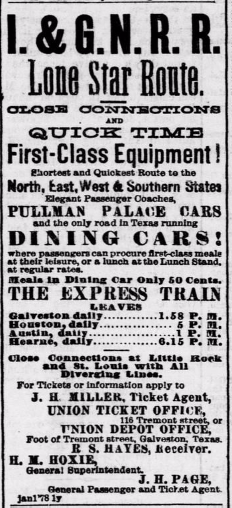 Advertisement placed in the Galveston Daily News 11 May 1878. International & Great Northern Railroad.